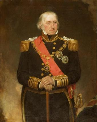 Portrait of Admiral Sir Edward Owen